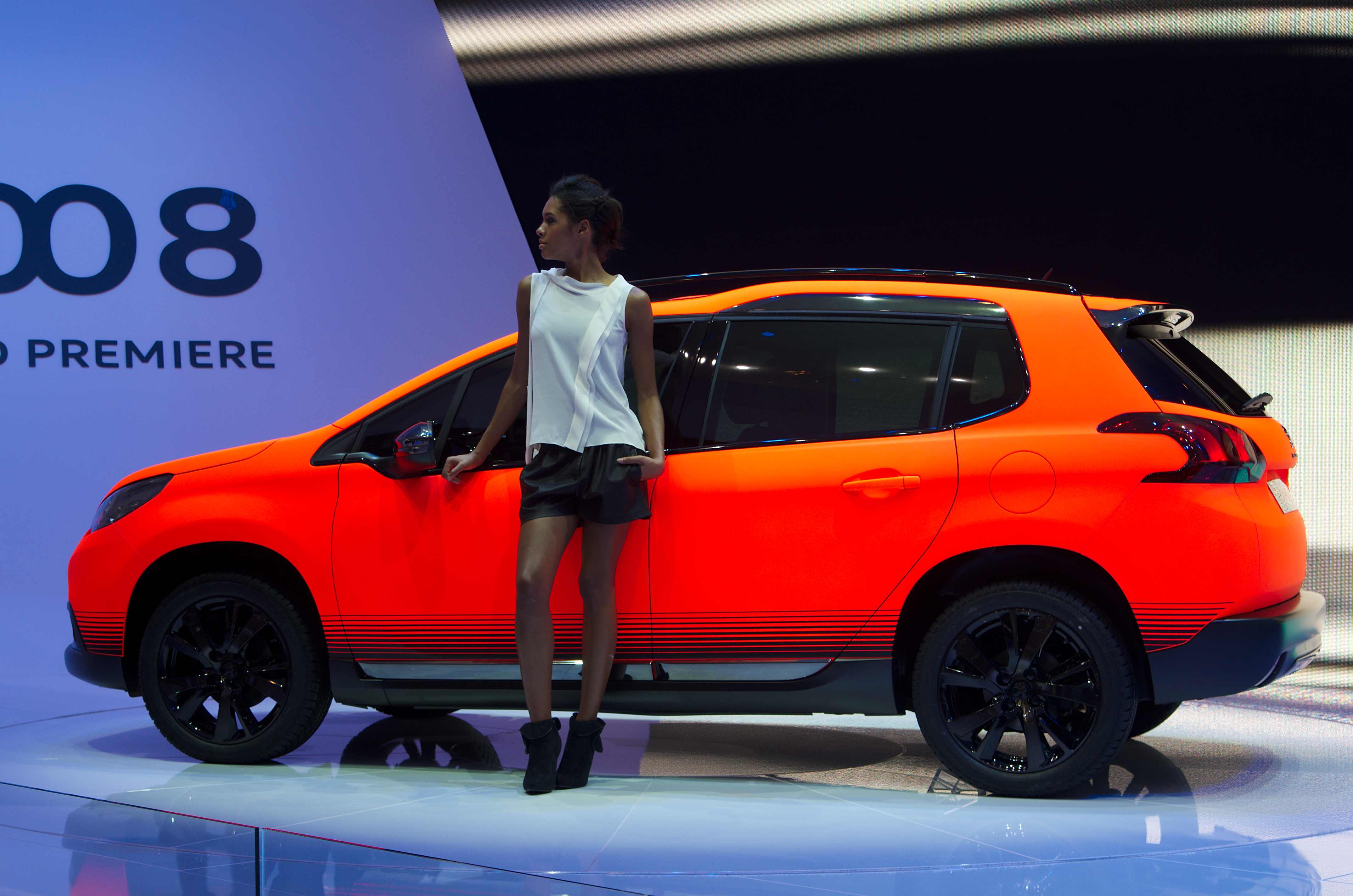 Geneva MotorShow 2013 - Peugeot 2008 orange